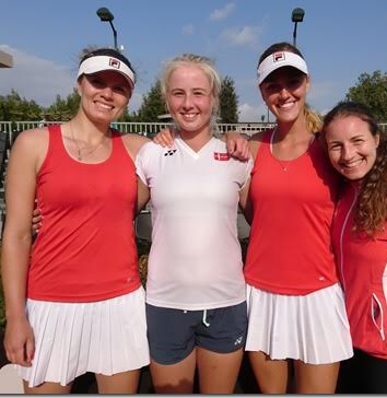 Denmark Fed Cup team 2018. From left: Maria Jespersen, Clara Tauson, Emilie Francati og Karen Barritza.